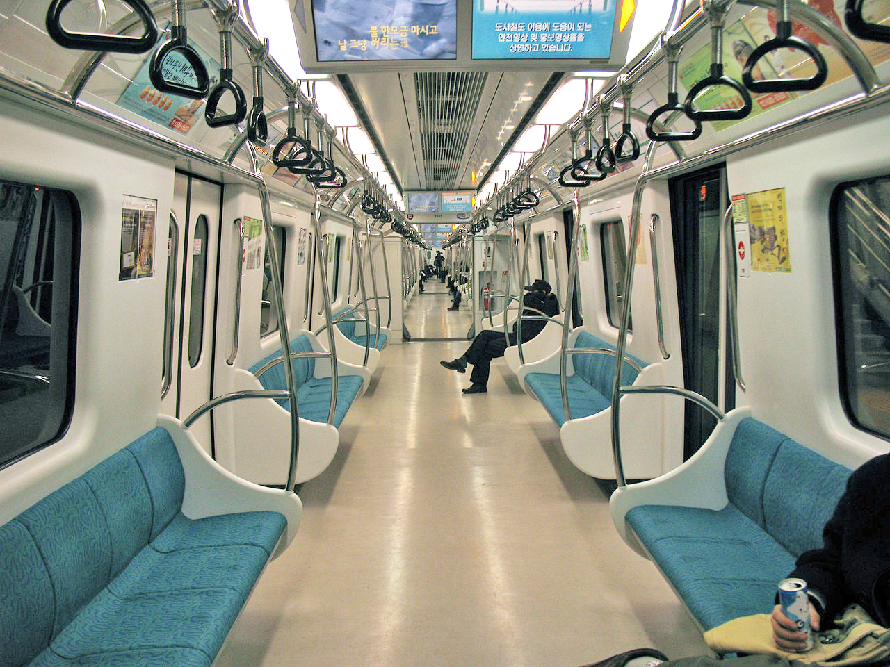 Interior Daejeon Subway Line 1 Car.